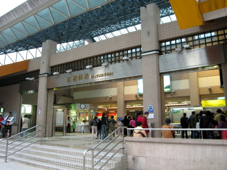 Taipei MRT Hongshulin Station